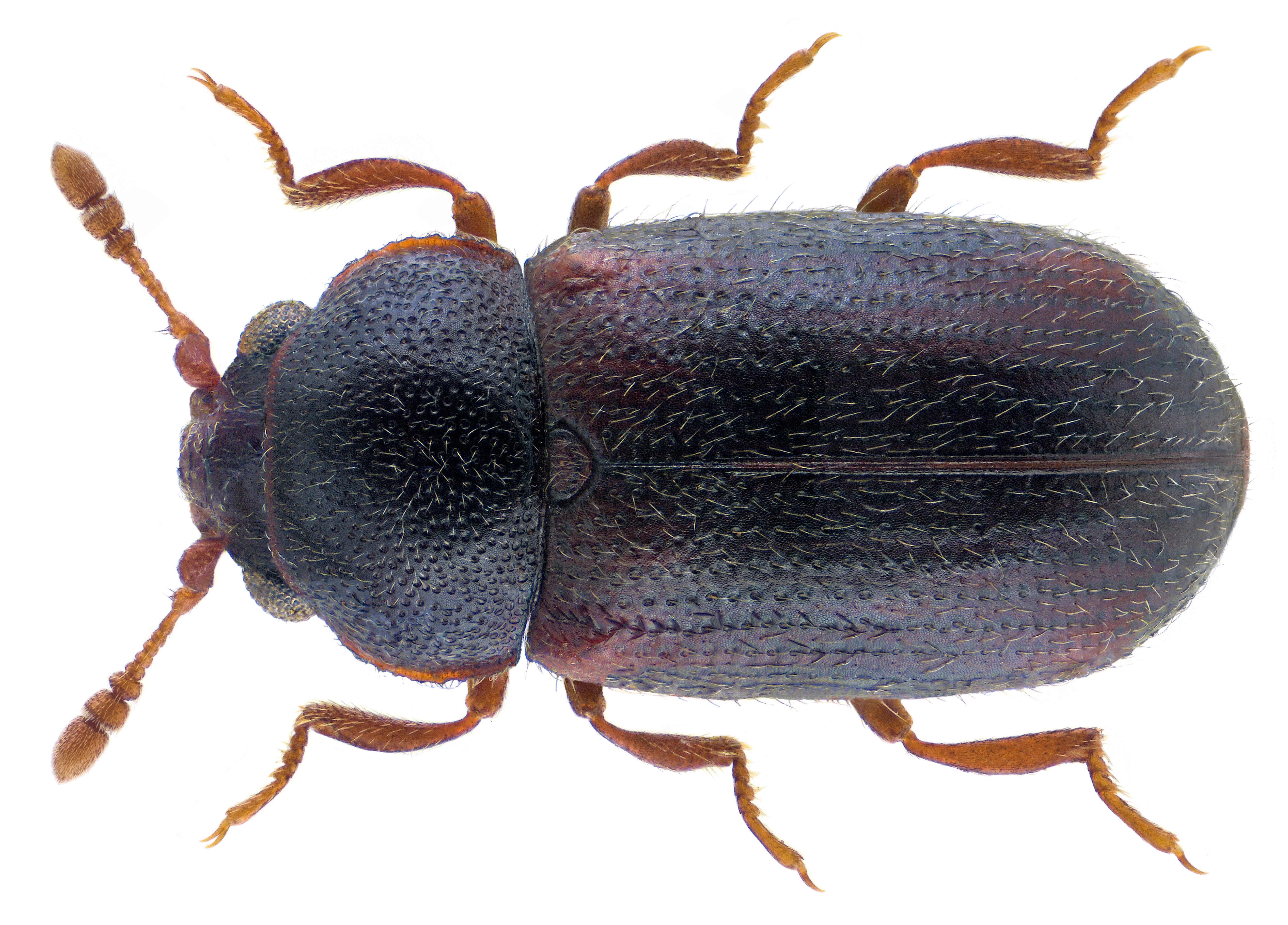 Sphindus dubius (Gyllenhal, 1808) Family: Sphindidae Size: 2.0 mm (1.8 to 2.0 mm) Distribution: Europe Ecology: The beetles live on slime molds and dust fungi Location: England, Calke leg.det. D.R.Nash, 29.V.1987 Coll. Oxford University Museum of Natural History Photo: U.Schmidt, 2018